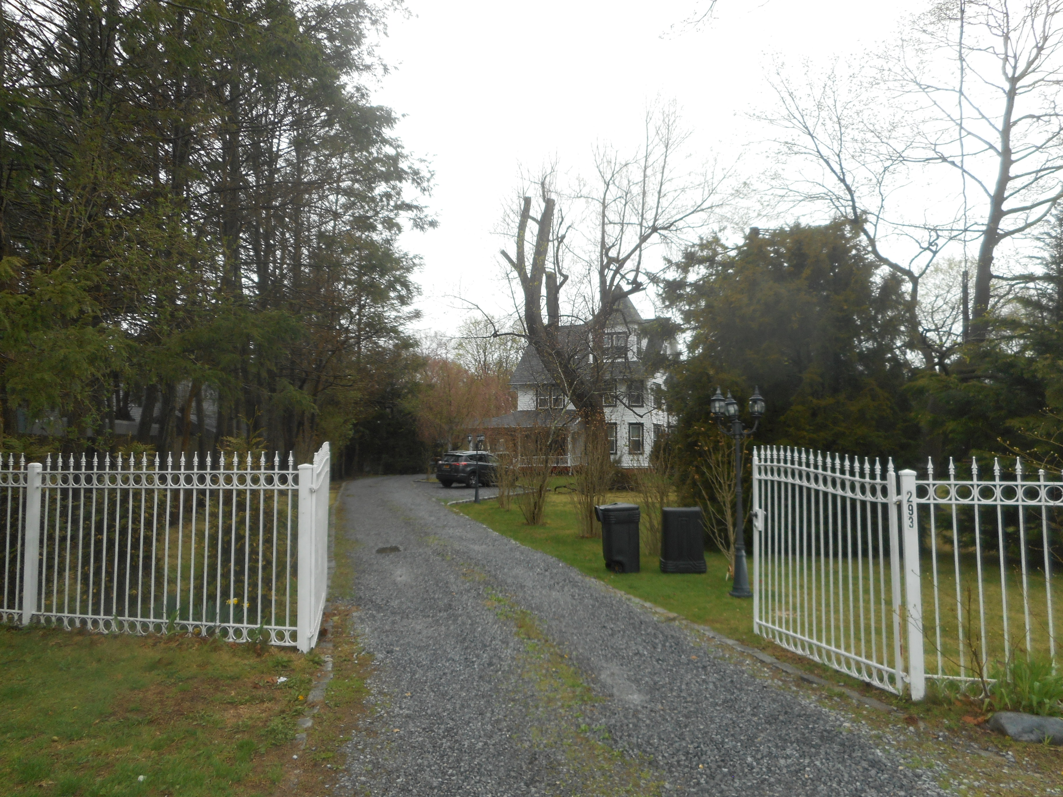 Front gate to the NRHP-listed Carll Burr, Junior House along Burr Road in Commack, New York. On the previous day, I snapped two pictures of the Carll S. Burr Mansion by mistake.